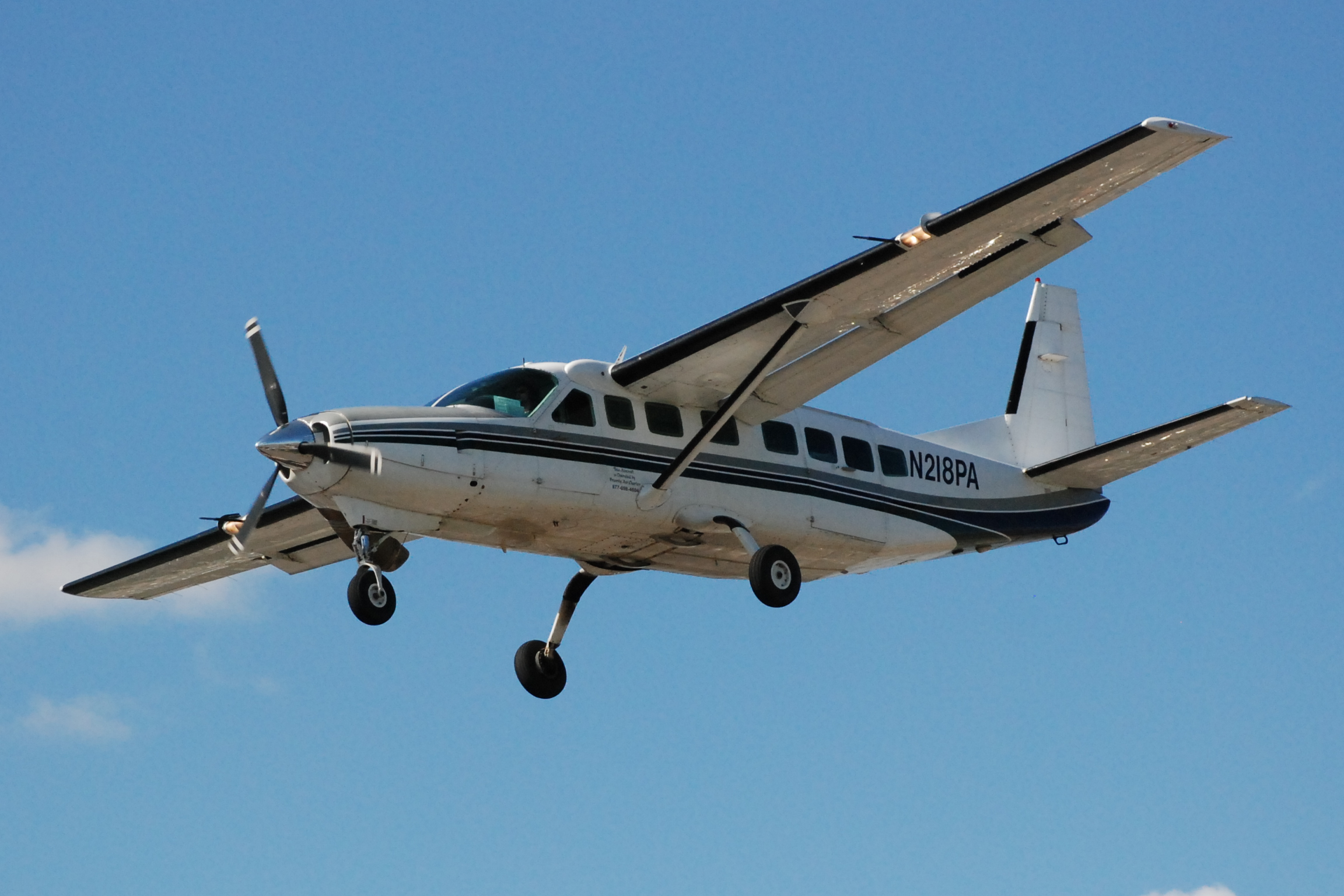 A small single propeller passenger plane lands in Toronto at Pearson International Airport. Image taken from Airport Road.; tail number: N218PA